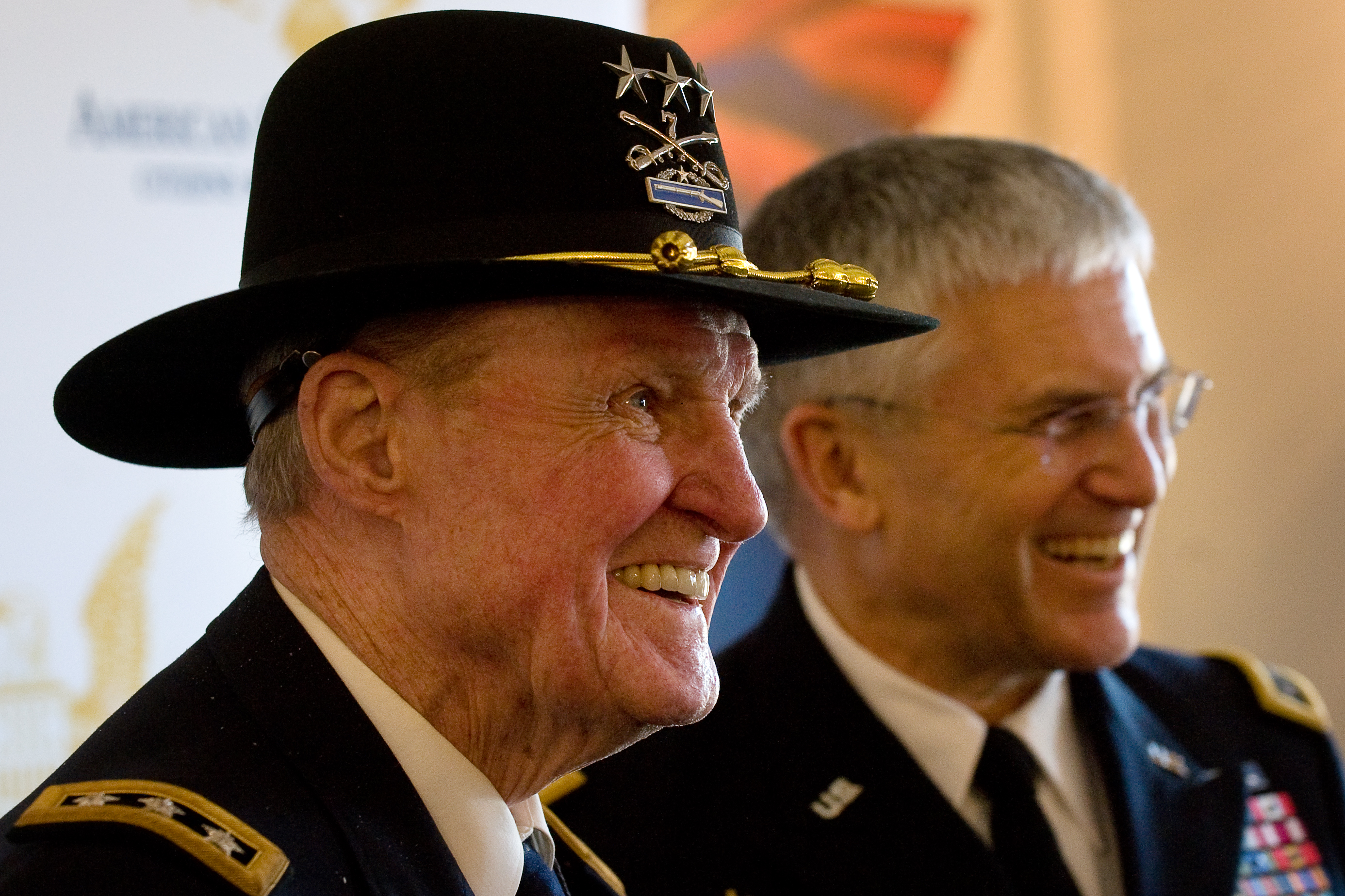 Retired Army Lt. Gen. Harold Moore and Gen. George W. Casey Jr., Chief of Staff of the Army, answer questions during a press conference at the conclusion of the American Citizenship Trust National Freedom ceremony in Montevallo, Ala., Feb. 15, 2010. Moore, who was portrayed by Mel Gibson in the movie "We were Soldiers," was the first recipient of the National Freedom Award and gave the keynote address during this year's presentation to the joint recipients Maj. Gen. George W. Casey Sr., posthumously, and Gen. George W. Casey Jr. See more at